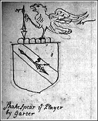 Copy of a drawing of William Shakespeare's coat of arms by Ralph Brooke, York Herald,(mistakenly identified as Peter Brooke in Schoenbaum's William Shakespeare: a Documentary Life (1975)